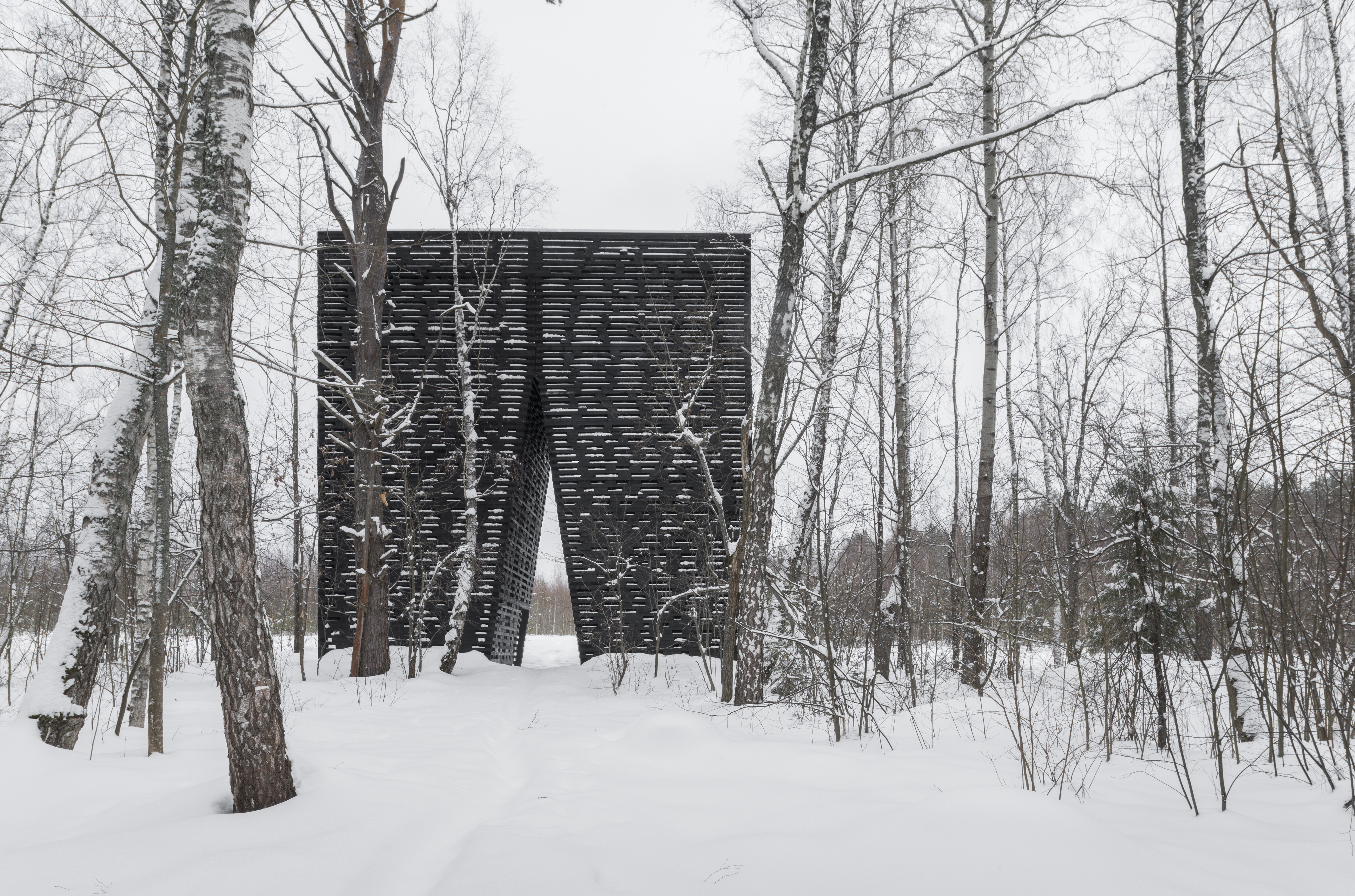 BERNASCONI's ARC